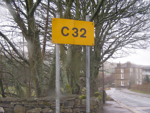 C32. Rare C road sign in Ribblesdale